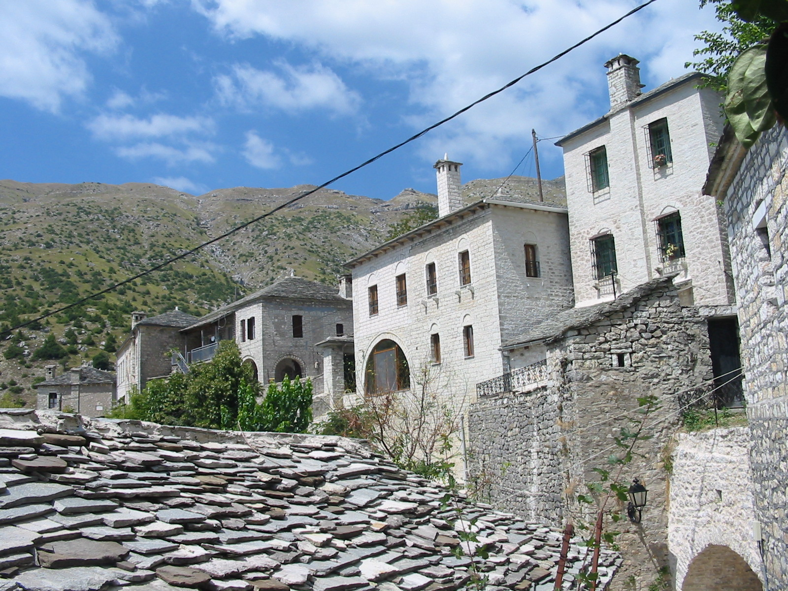 Houses in Syrrako - Epirus